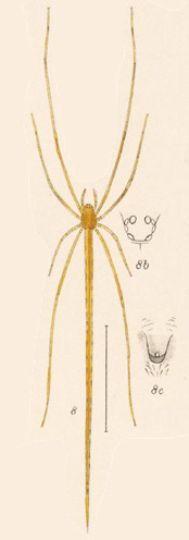 "Ariamnes approximata", detail from Zoological illustrations of spiders made by A. T. Hollick for the Biologia Centrali-Americana, an encyclopedia of the natural history of Mexico and Central America